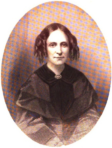 Harriet Turner Corning Pruyn, (1822 -- 1859), wife of John V. L. Pruyn (1811 -- 1877)